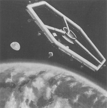 One of Langley's early concepts for a manned space station: a self-inflating 75-foot-diameter rotating hexagon. L-62-8400